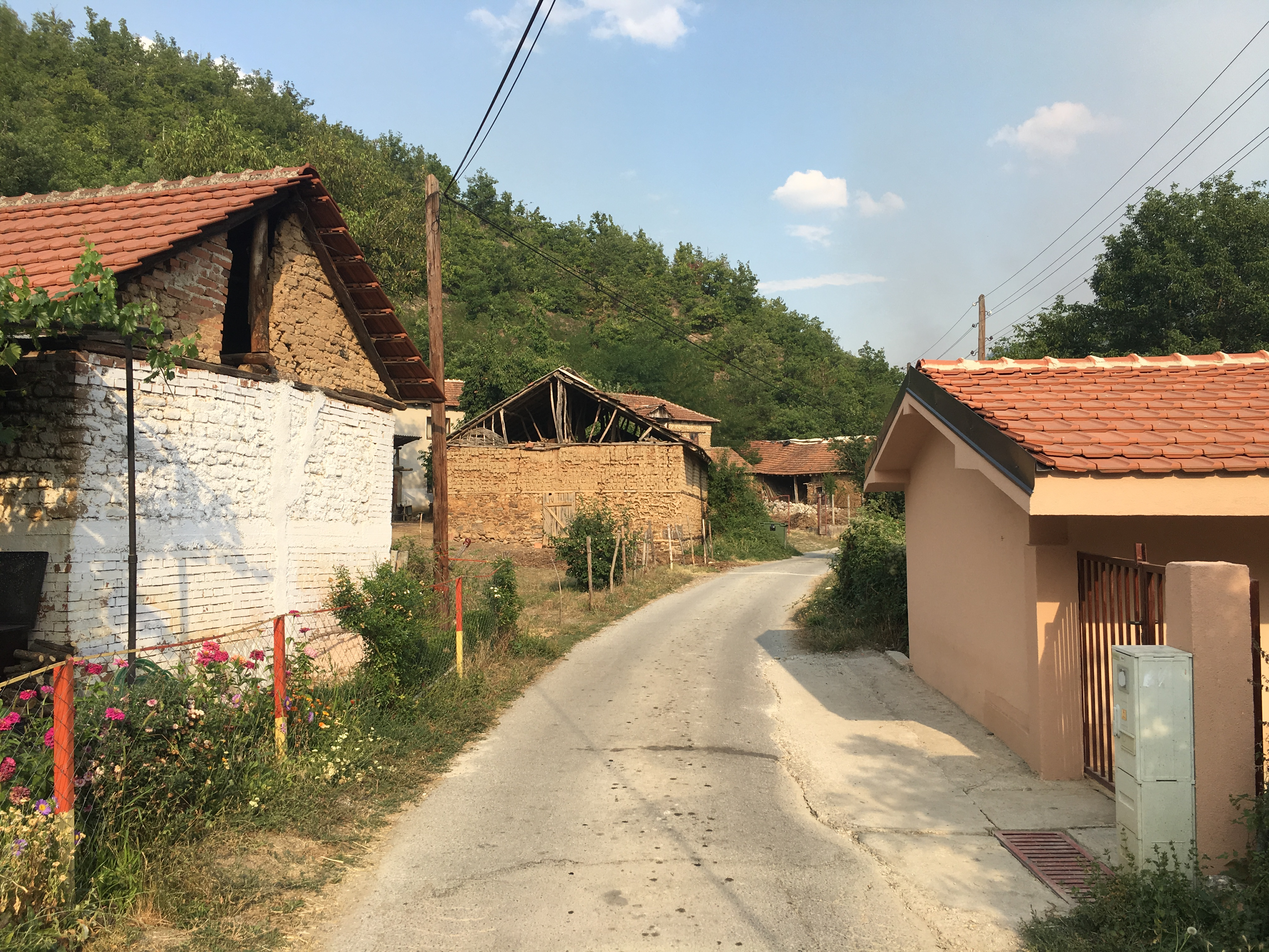 A street through the village of Vapila